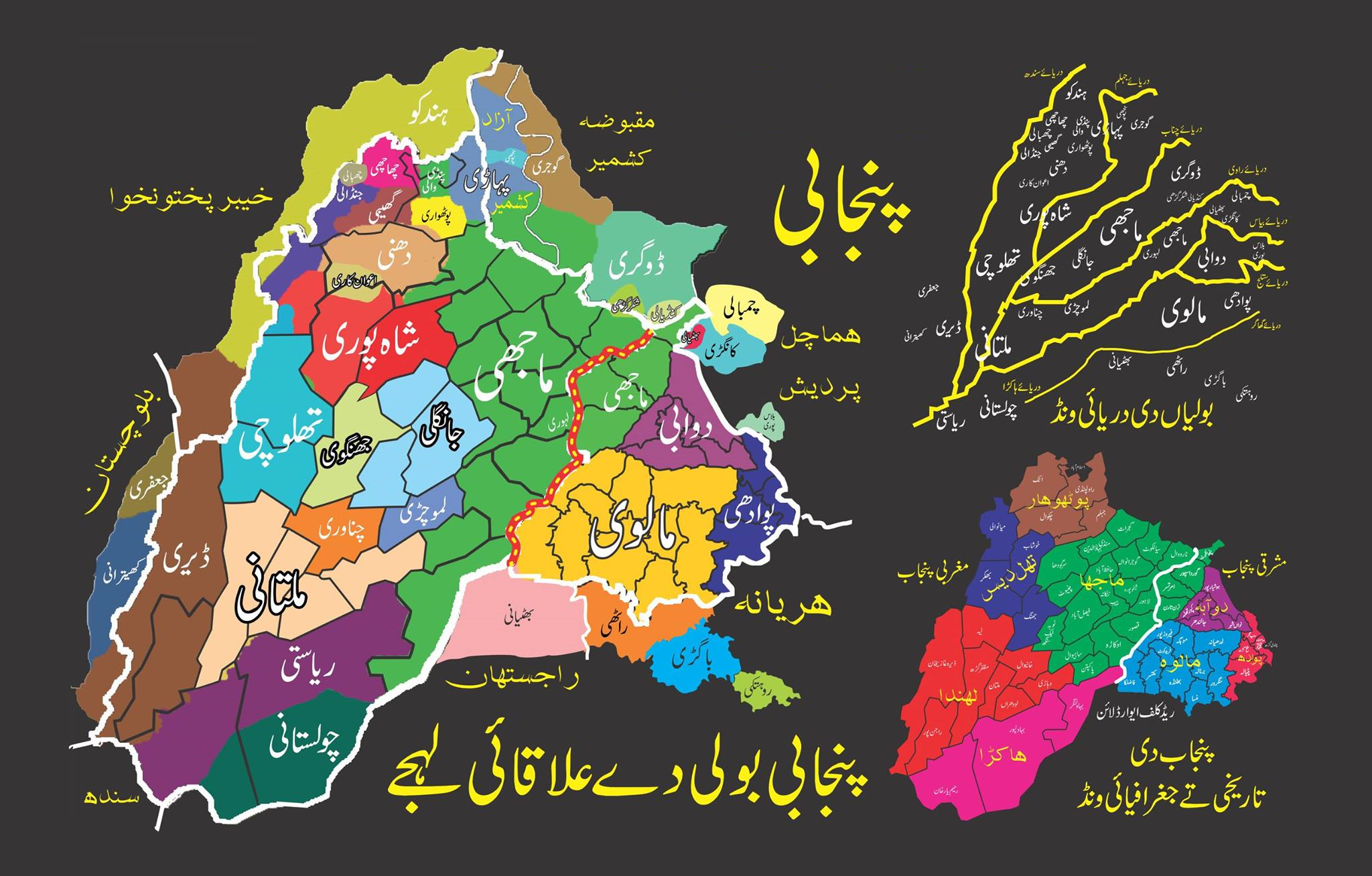 پنجابی: Map of Dialects of Punjabi Language